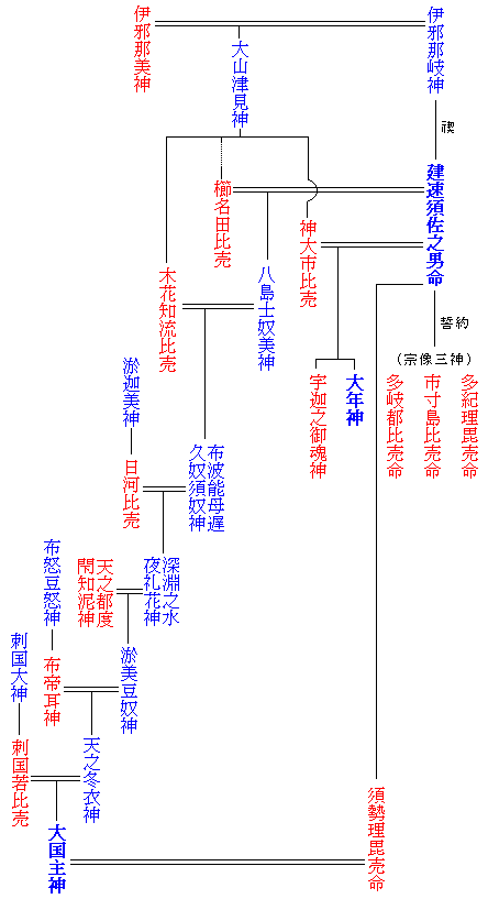 Family tree of Susanowo, a shinto kami スサノオの系図